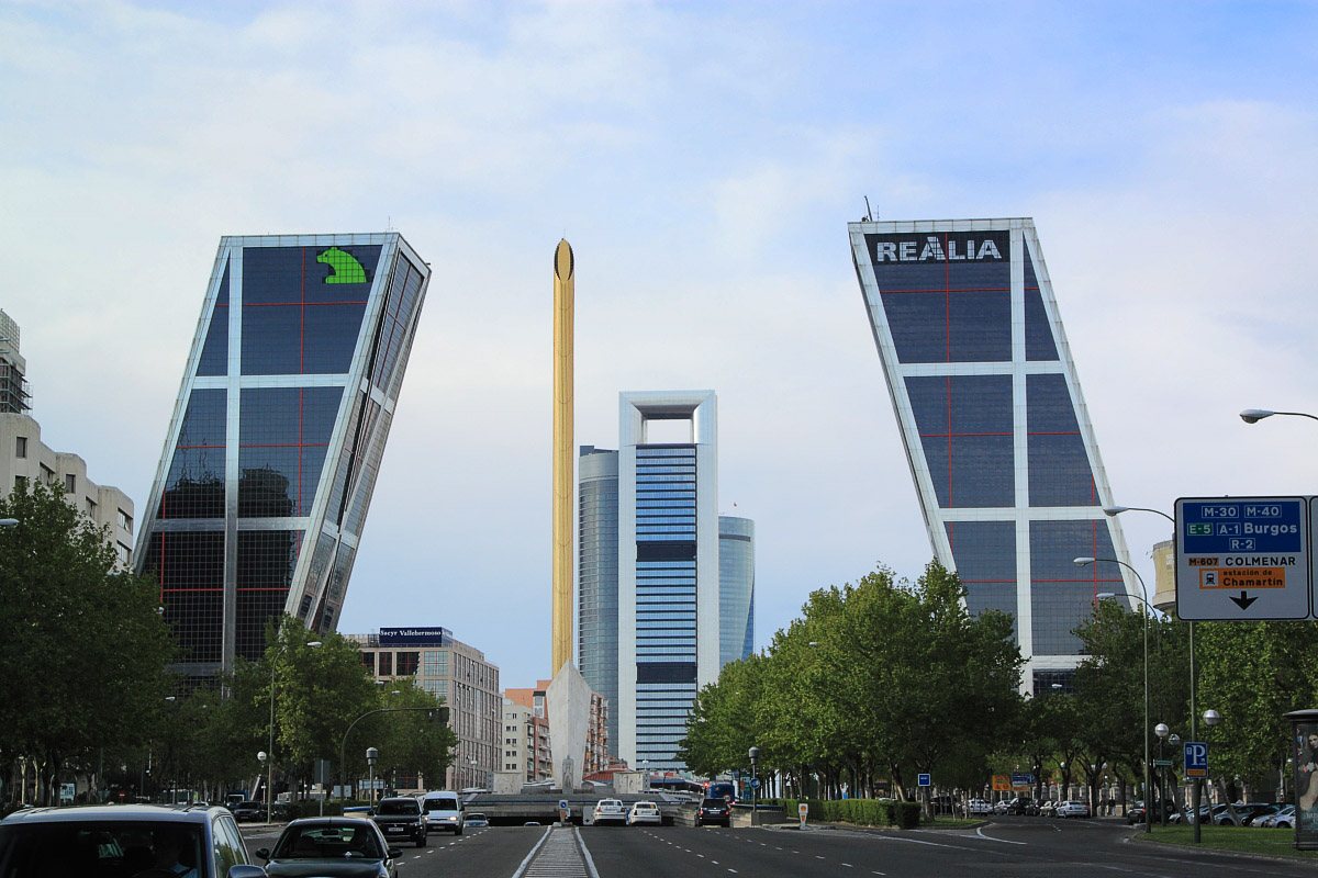 View from Paseo de la Castellana (avenue) in Madrid (Spain). At the right and left, the two Puerta de Europa ("Gate of Europe") inclined buildings. In the background, Cuatro Torres Business Area.